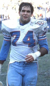 NFL player Bruce Matthews